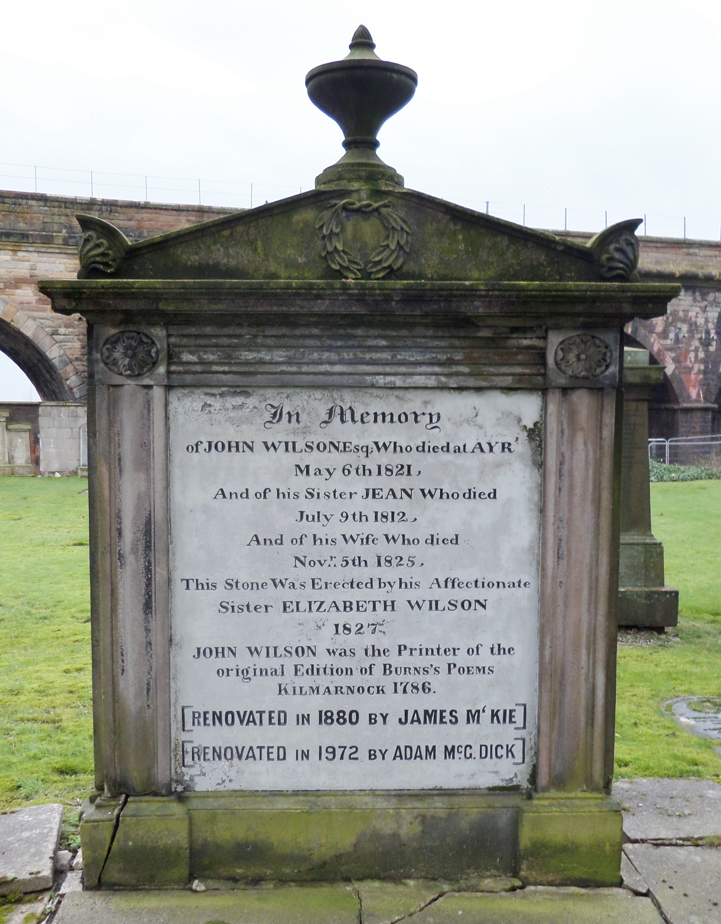 John Wilson's gravestone. The printer of Robert Burns' Kilmarnock Edition in 1786. High Kirk cemetery. Kilmarnock, Ayrshire, Scotland.